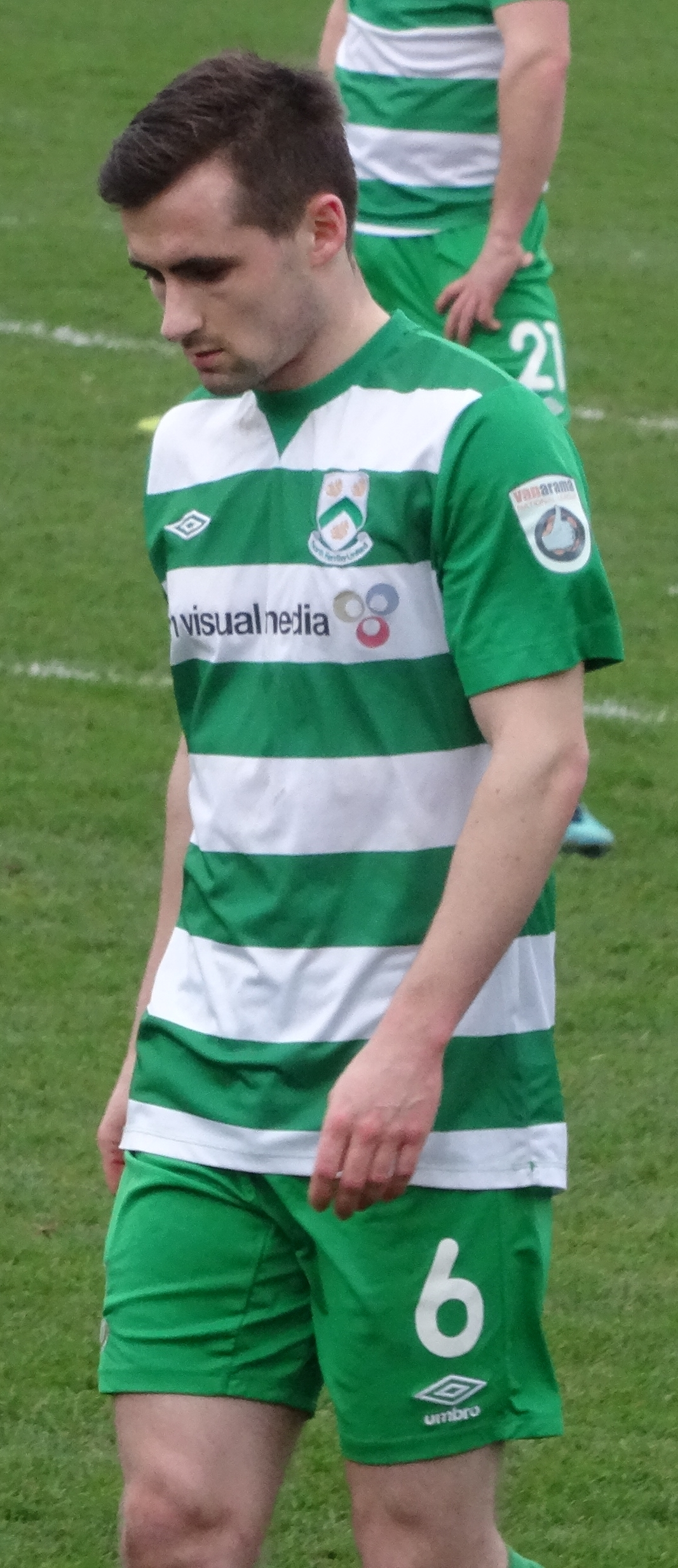 Danny Emerton playing for North Ferriby United against Solihull Moors at Grange Lane, North Ferriby on 18 March 2017